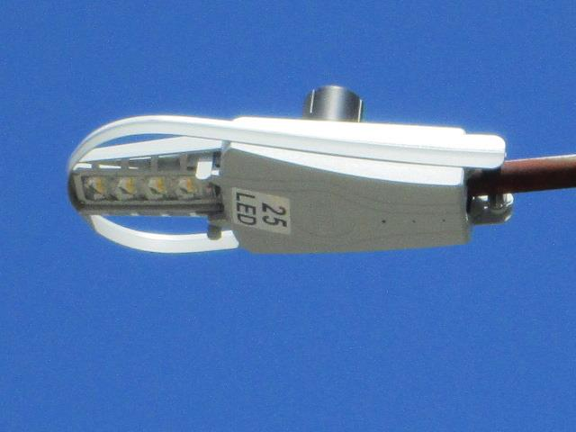 History of street lighting, Cree Lighting, XSPR (25-54 watts)